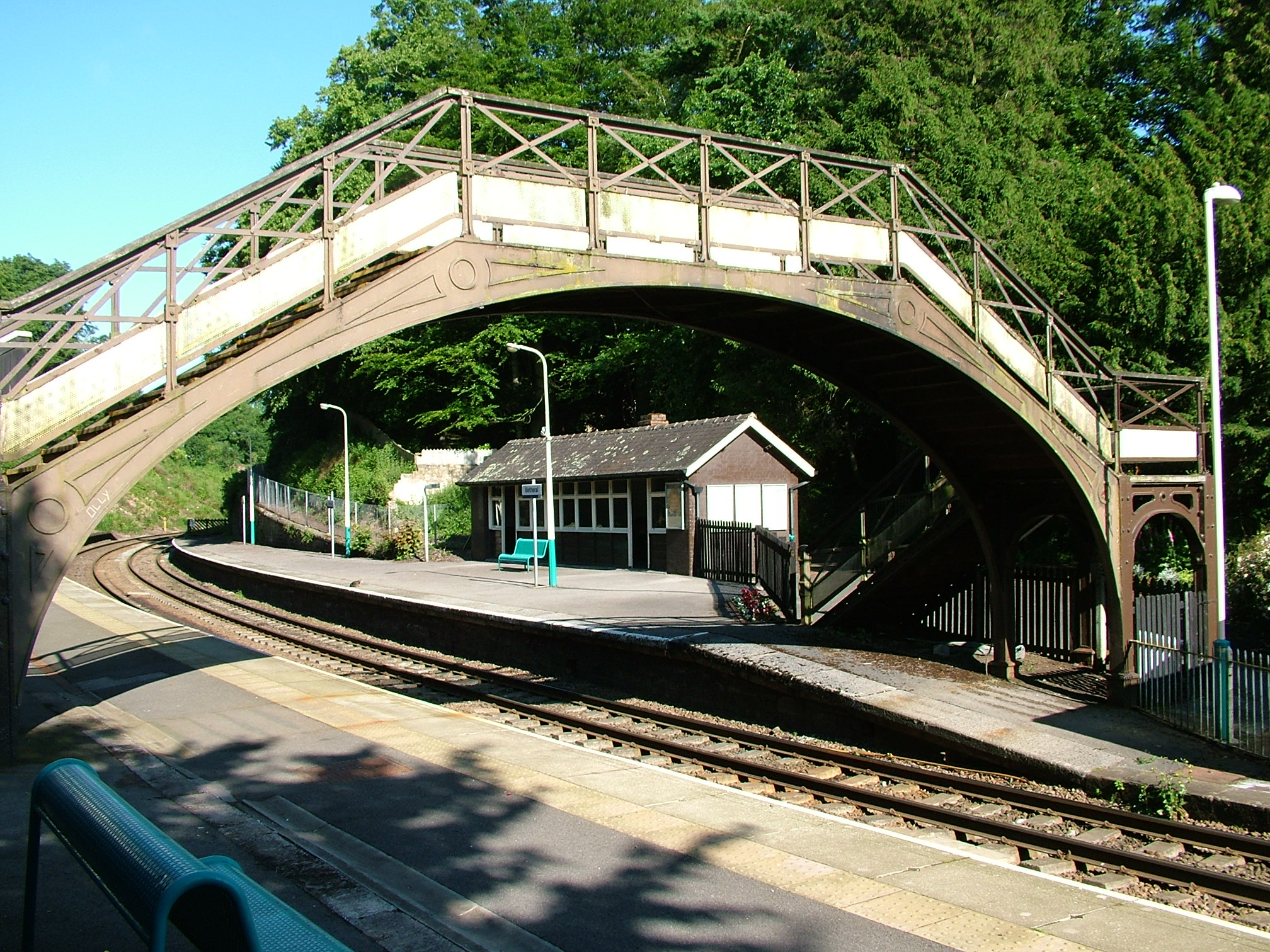 Wetheral station - Carlisle - Cumbria By and copyright Tagishsimon 26th June 2005